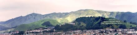 This is San Bruno Mountain and Sign Hill from South San Francisco, CA.